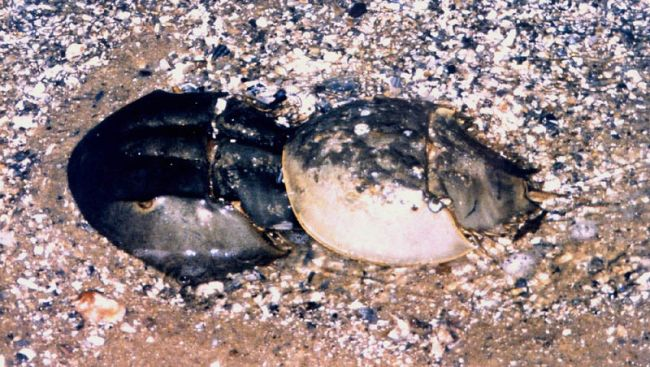 Pair of horseshoe crabs. Touched up image from NOAA Photo Library: Image ID: line2244, America's Coastlines Collection Location: Flag Ponds Beach, Chesapeake Bay, Maryland Photo Date: 2000 May 27 Photographer: Mary Hollinger, NODC biologist, NOAA Afbeelding:Degenkrabben.jpg